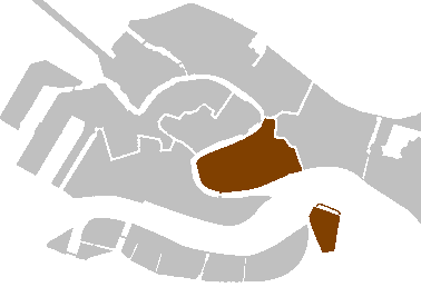 districts of Venice - San Marco